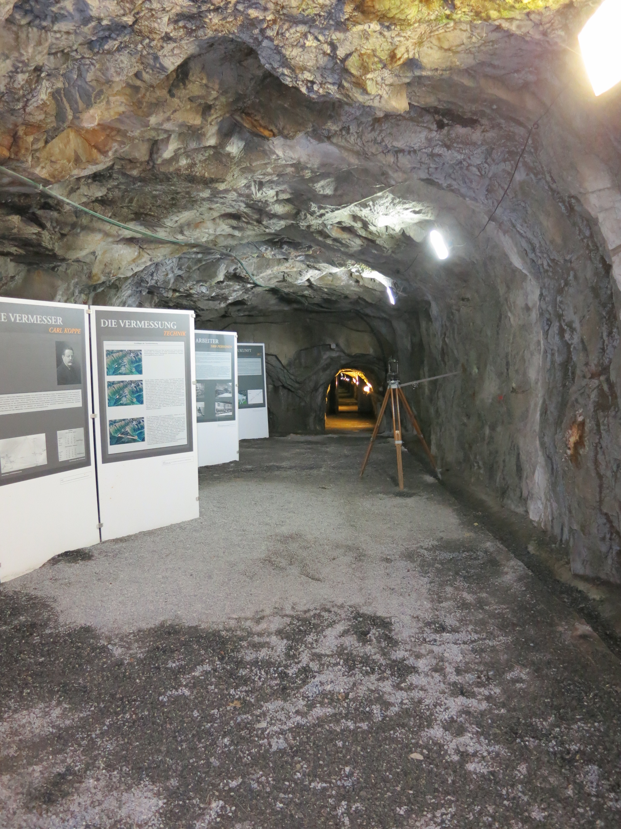 Visierstollen Gotthard, Göschenen UR, Schweiz